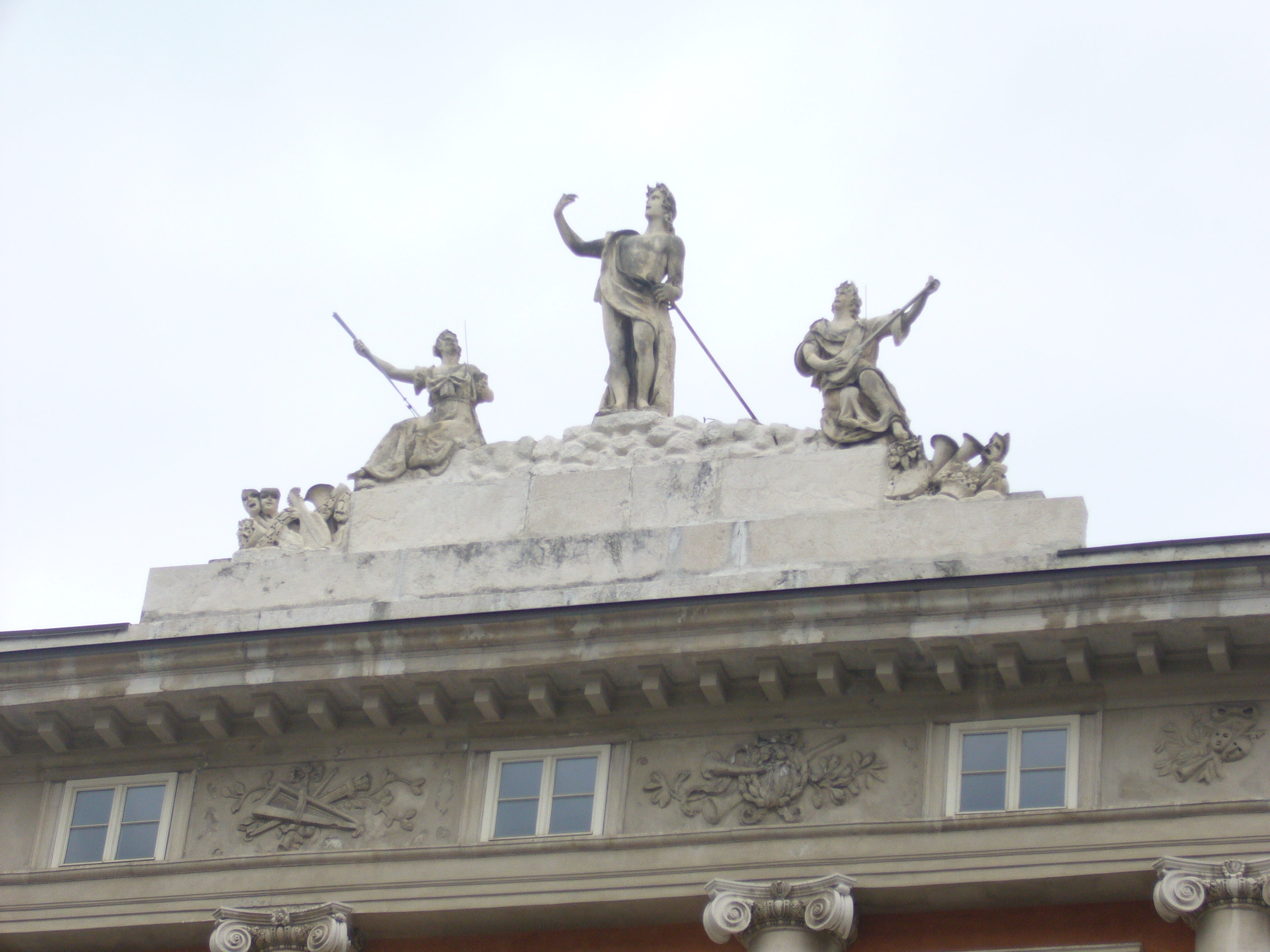 Teatro Verdi in Triëst